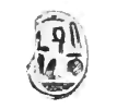 Picture of a scarab reading Seankhibre, believed by Petrie to refers to pharaoh Amenemhat VI of the 13th Dynasty. 13th dynasty, Second intermediate period.